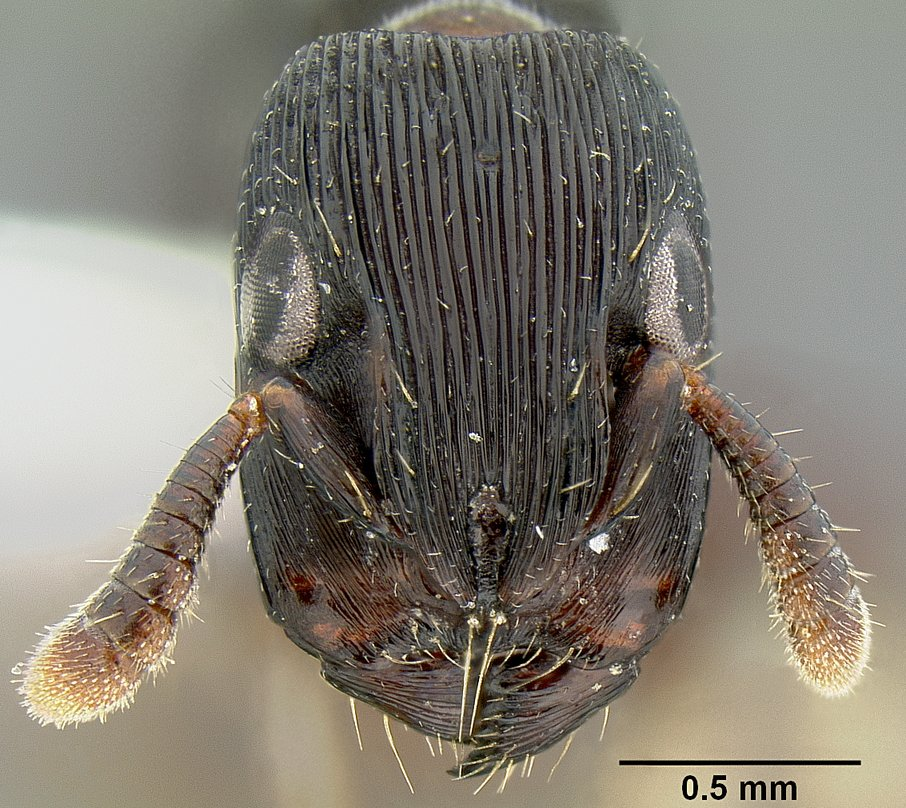 Head view of ant Cylindromyrmex striatus specimen casent0106074.